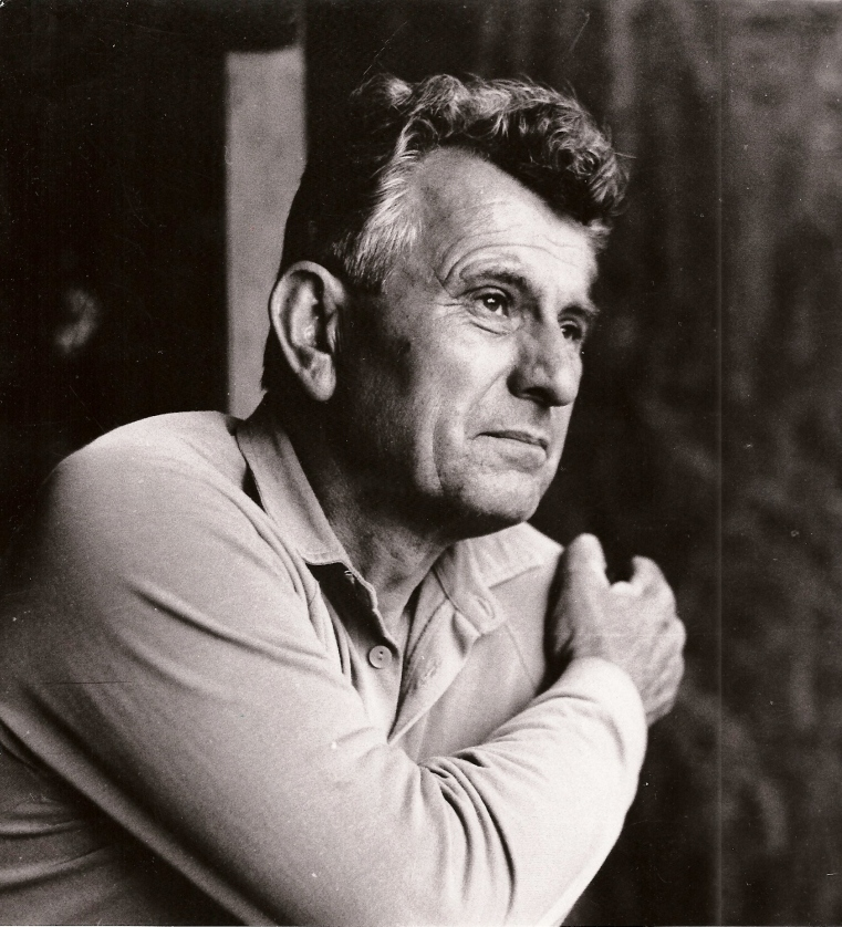 Portret of Luboš Hruška from 1968.